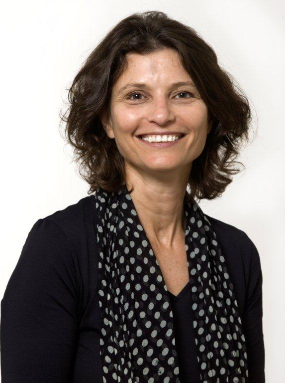 יערה בר און